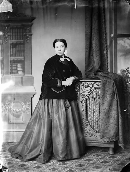 1 negative : glass, wet collodion, b&w ; 21.5 x 16.5 cm.